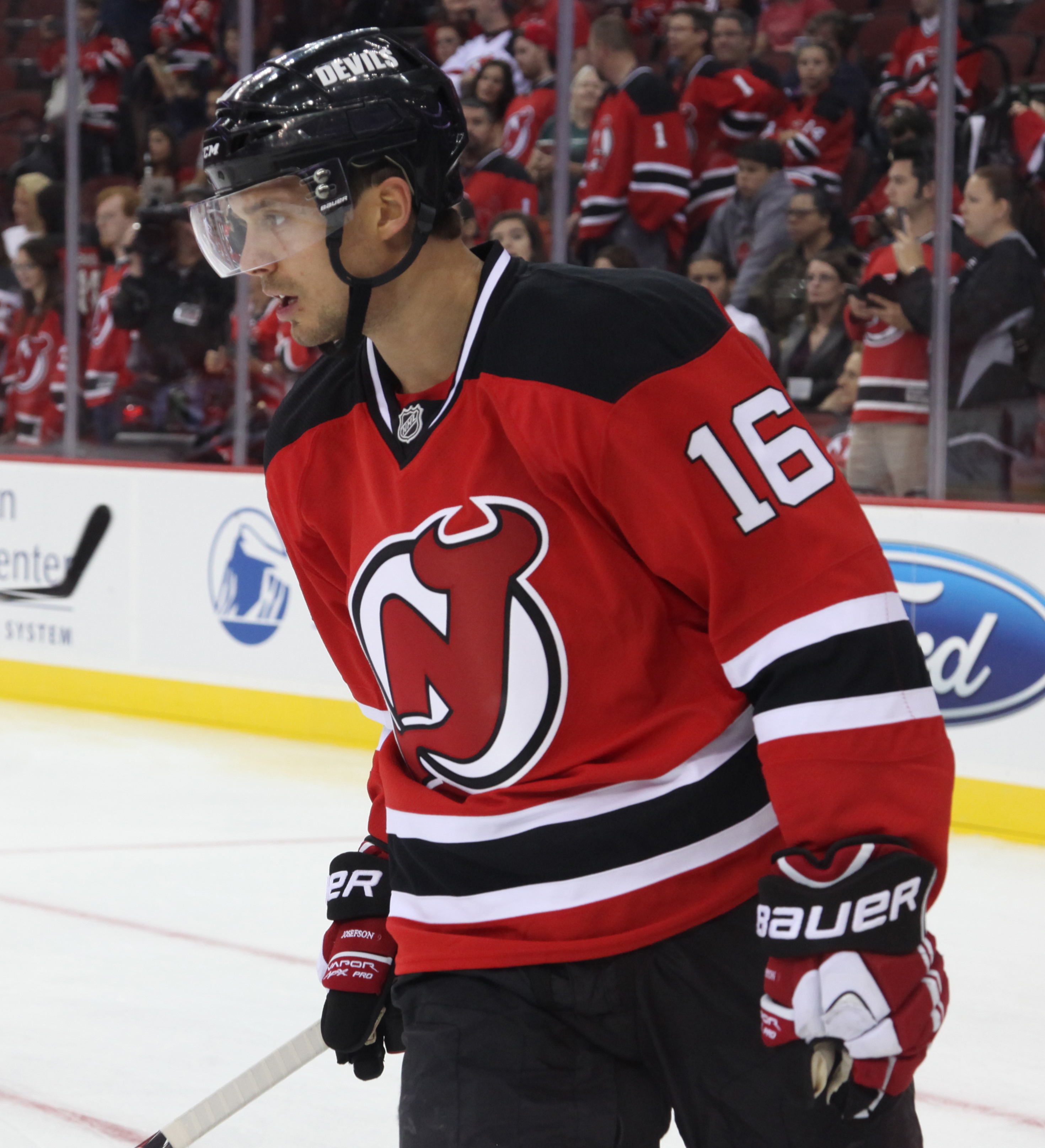 IMG_3880 Josefson in September 2014.